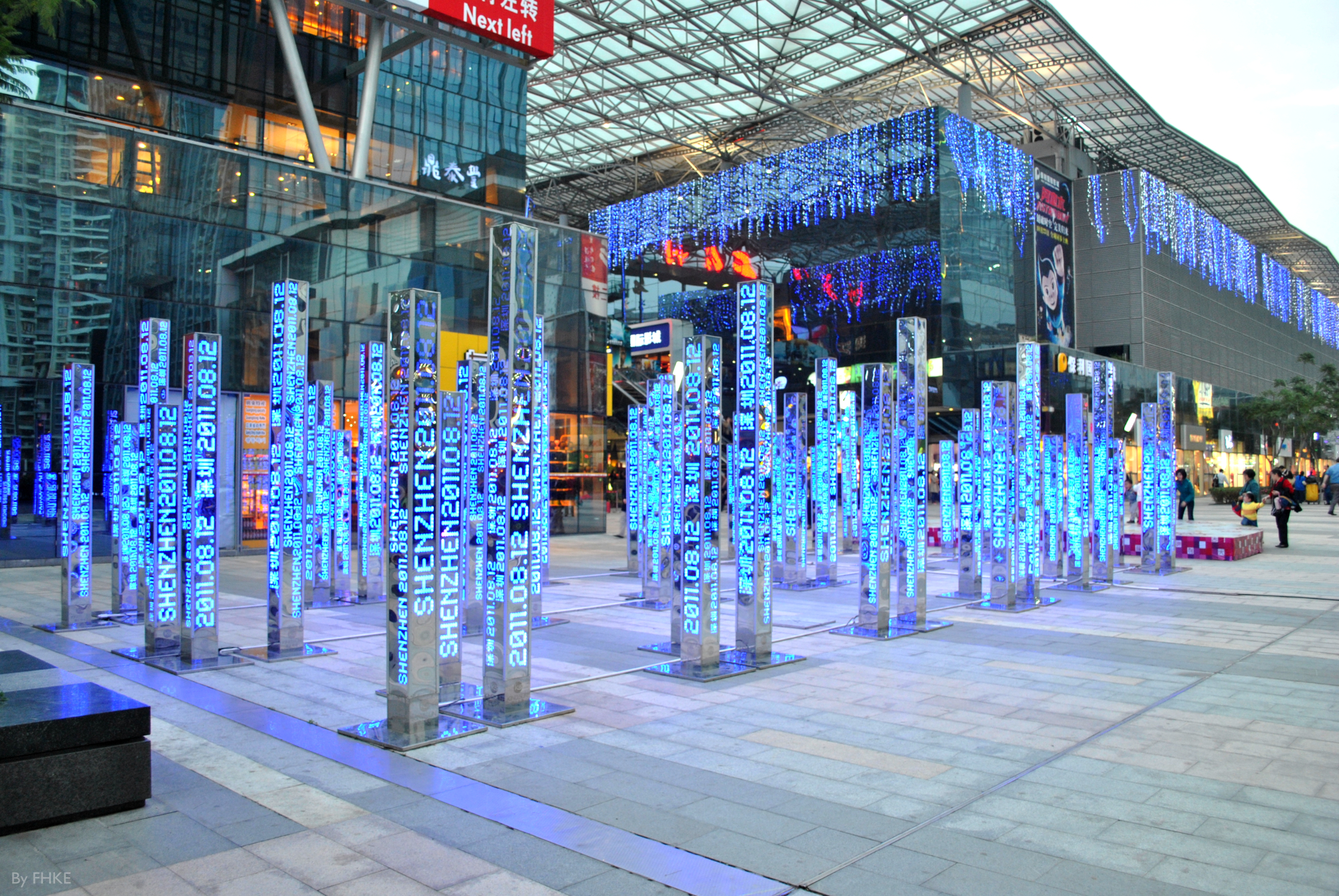 2011 Summer Universiade preparation in Shenzhen showcased in 2010.